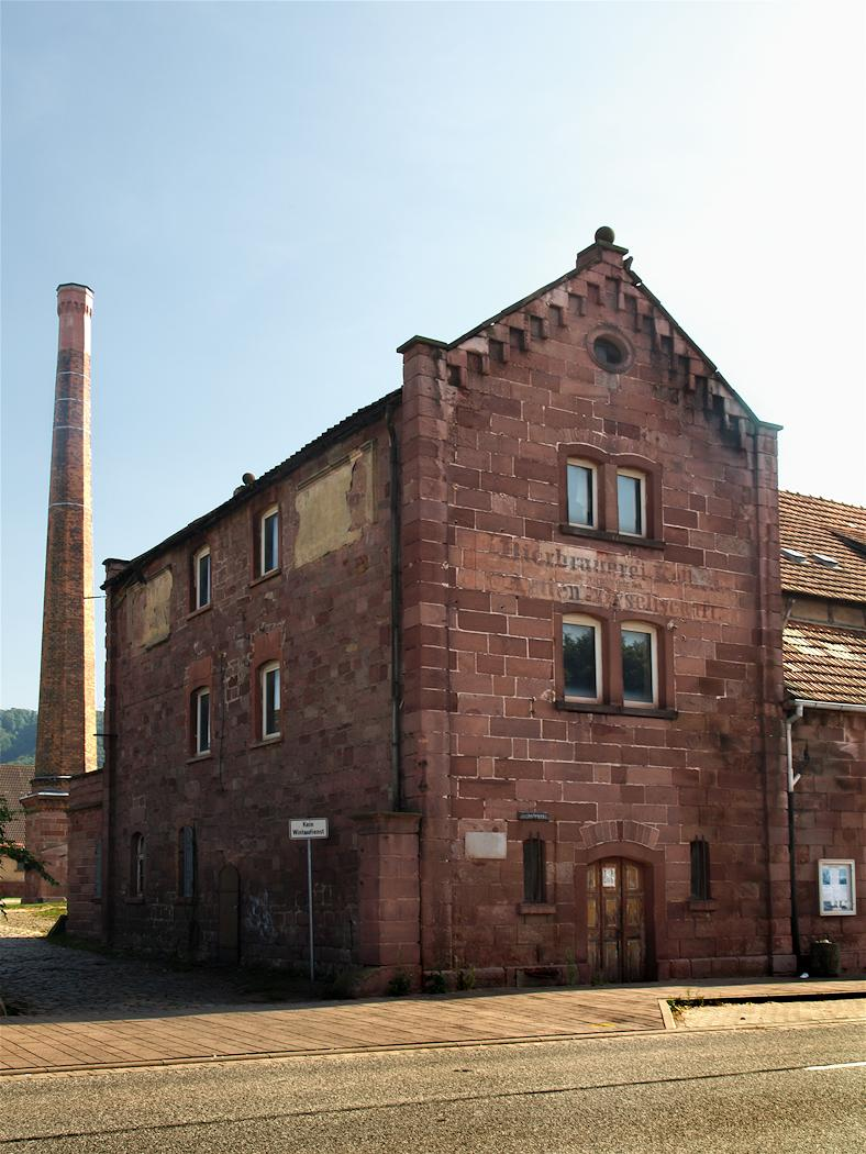 Kelbra , (Saxony-Anhalt , Germany), brewery , photo 2009